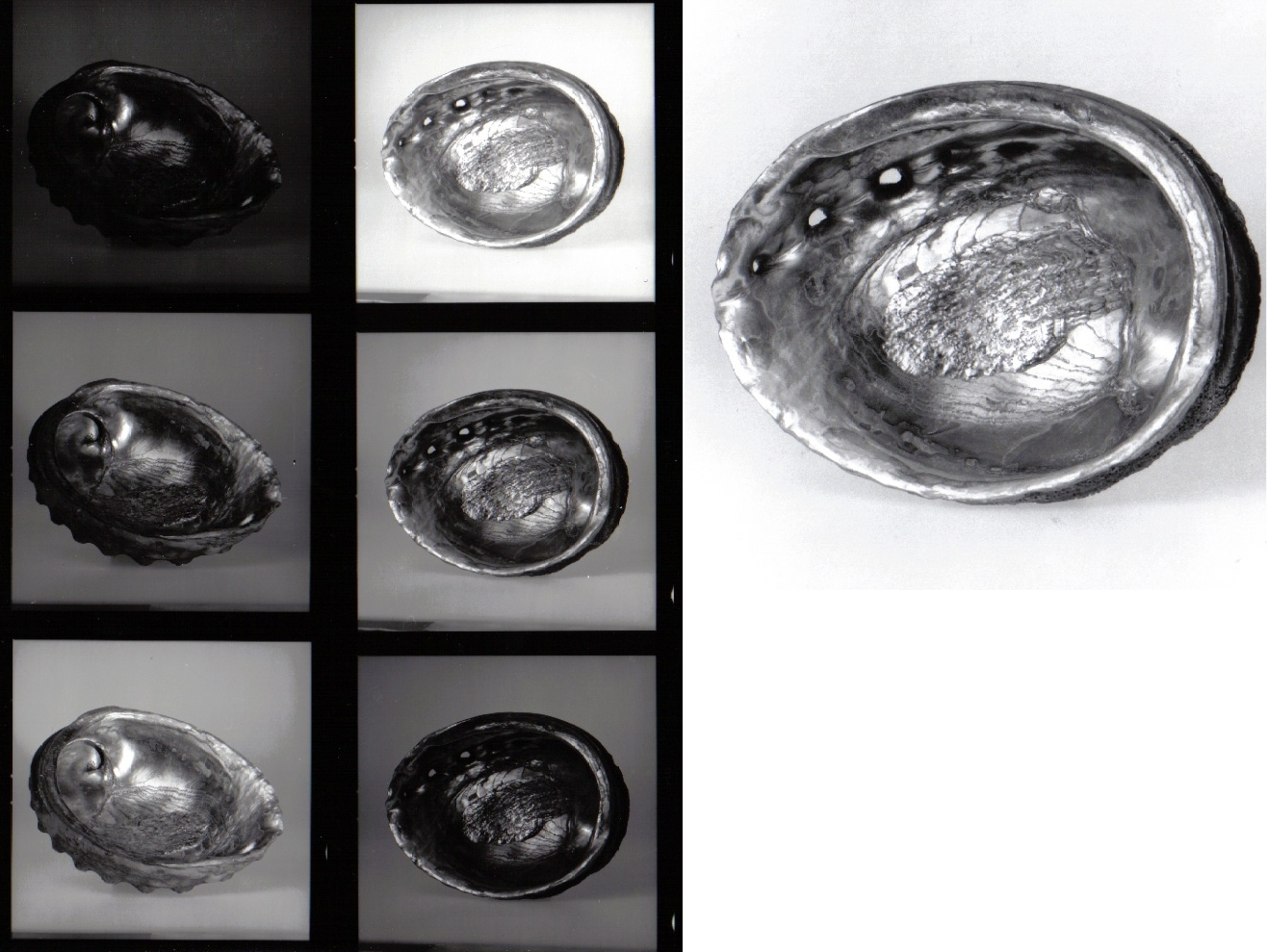 b/w photographs of an abalone